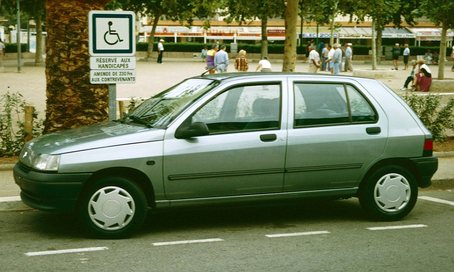 Early Renault Clio 5 door with boules suitable square